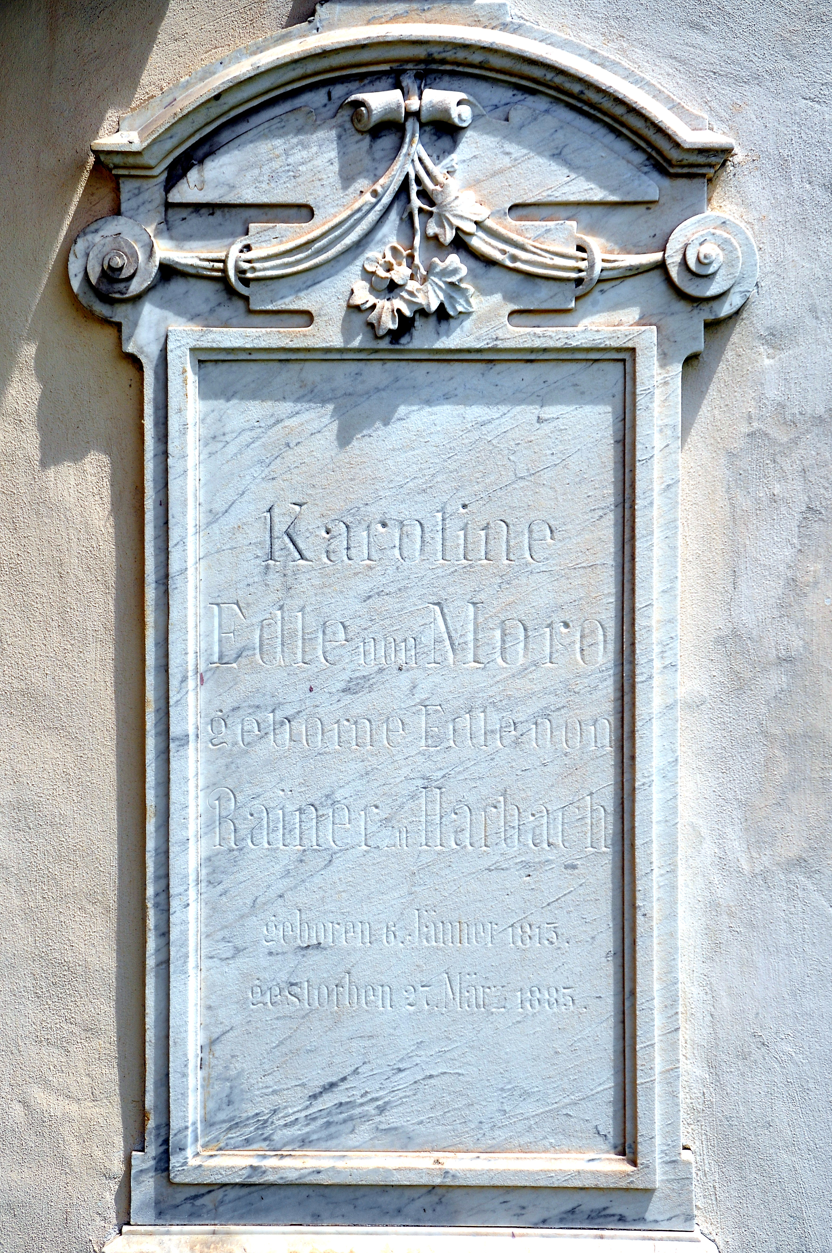 Gravestone of Karoline von Moro at the exterior wall of the parish church Saint Florian in Stein, 13th district "Viktring", Klagenfurt, Carinthia, Austria, EU